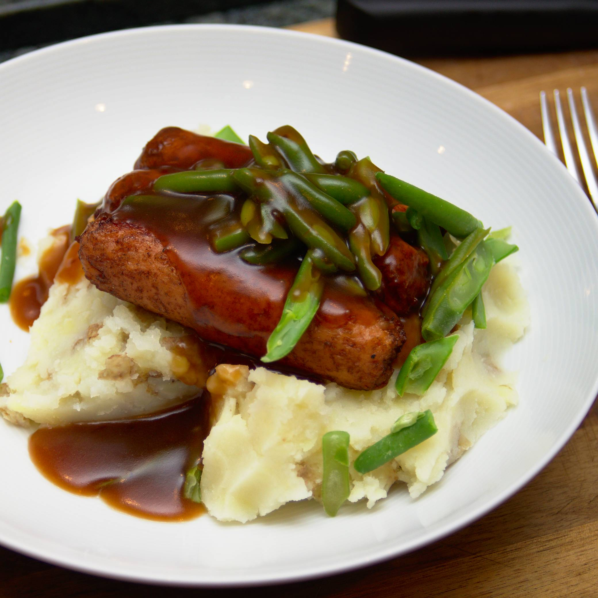 This shows the classic meal 'bangers and mash' made using vegan ingredients